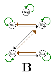 an example for a Brouwerian frame